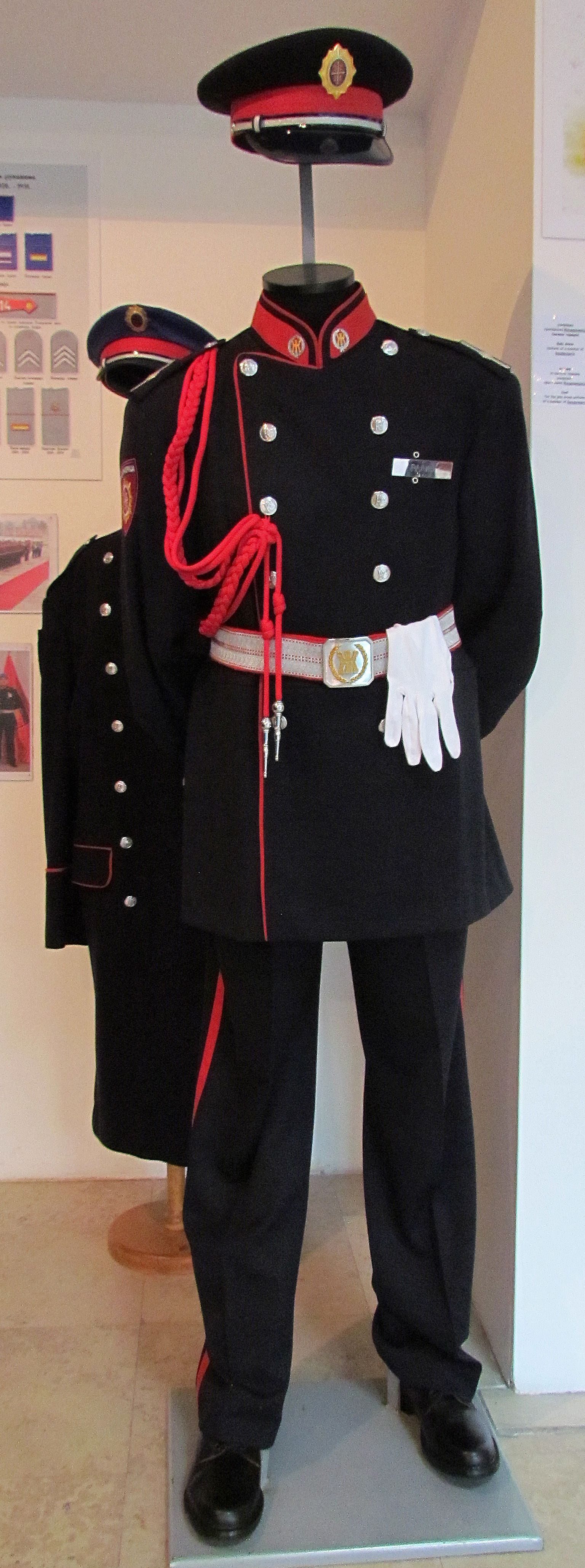 Gala uniform of Serbian Gendarmerie